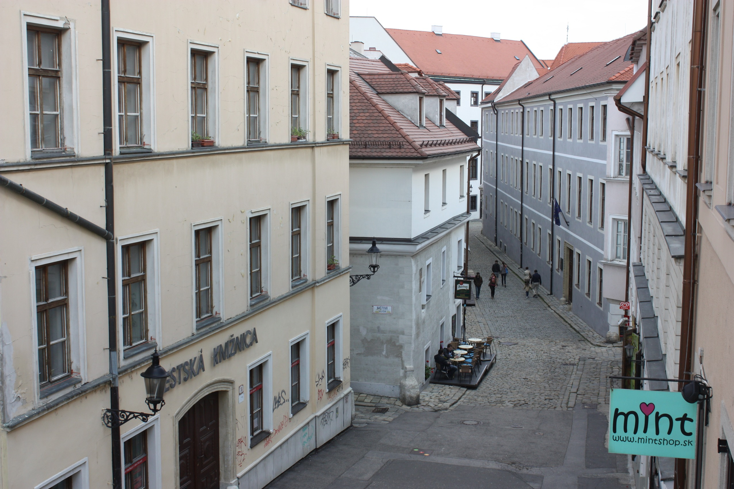 Bratislava, the street "Klariská"